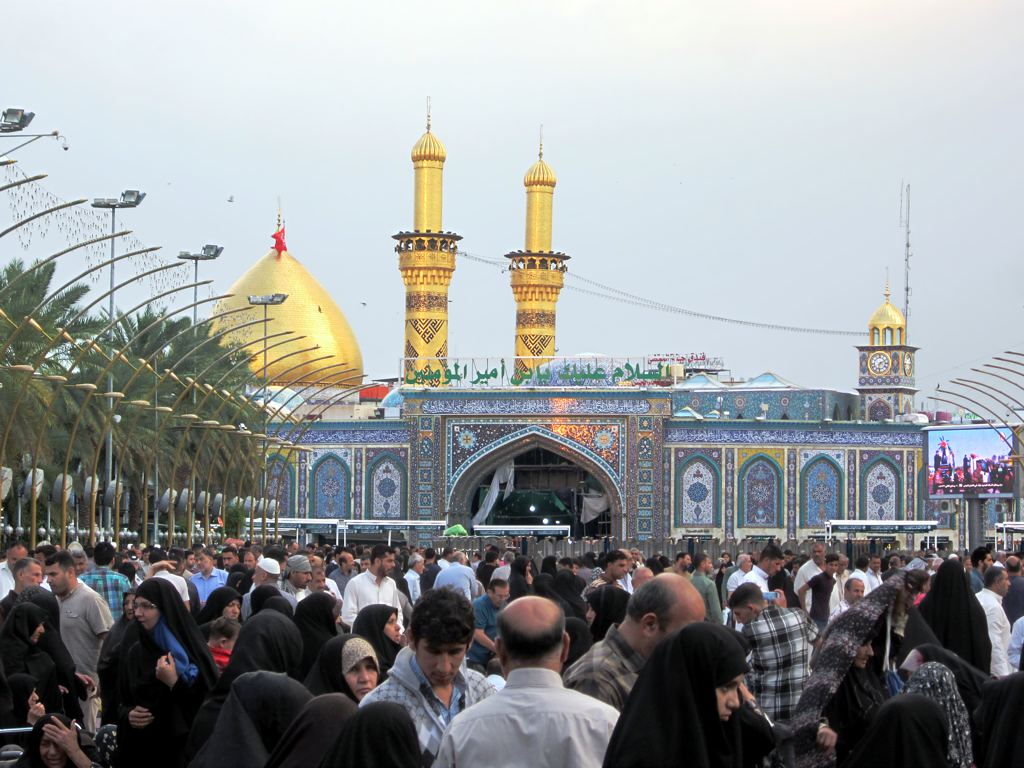 Al-Abbas Shrine in Karbala